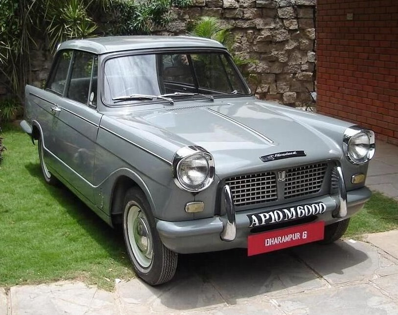 1965 Standard Herald Mk 1. Done only about 5,000 Km to date! Formerly owned by a royal family, hence the red "Dharampur" plates.